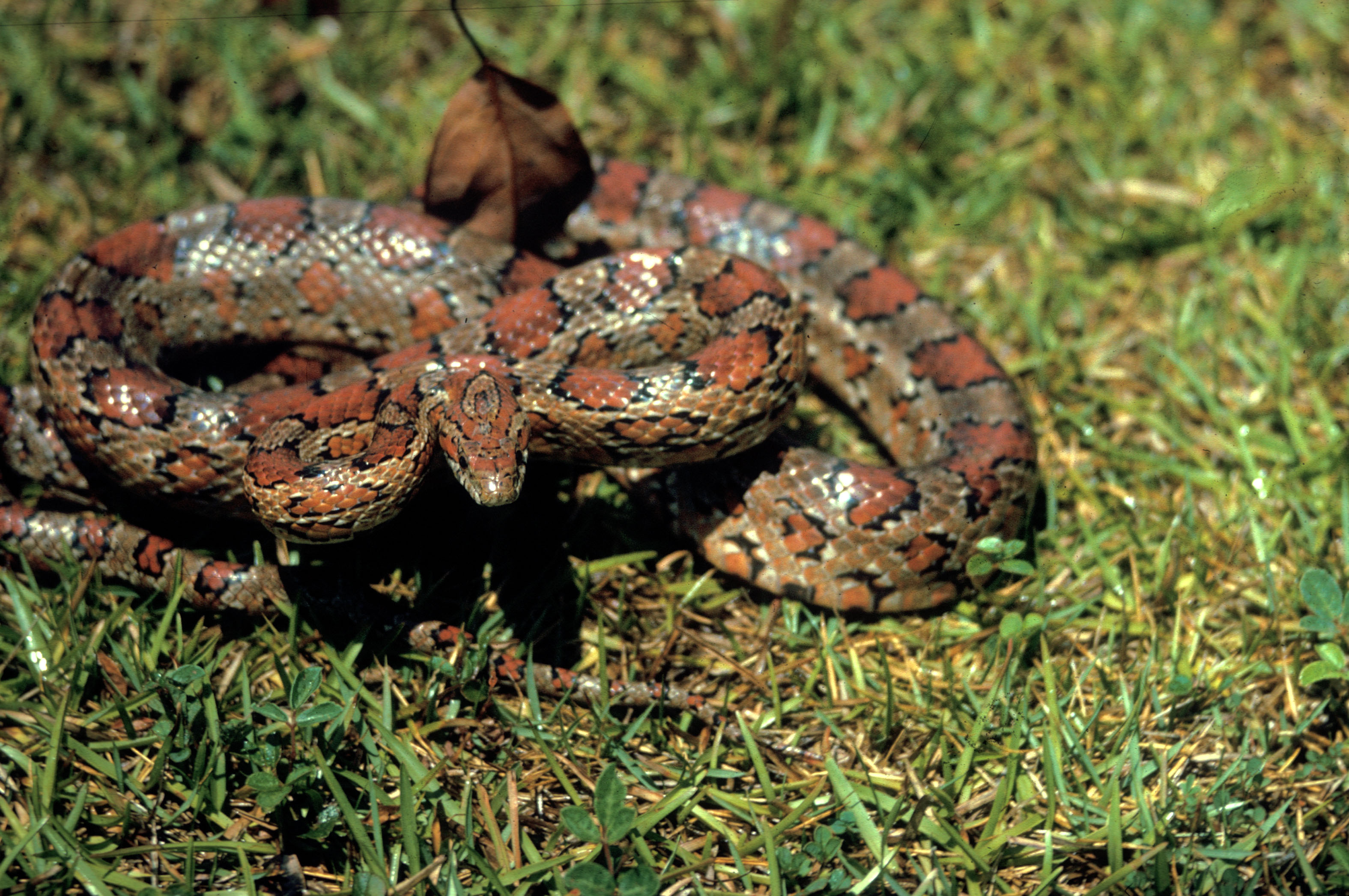 Corn Snake, NPSPhoto